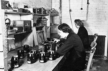 The Women's Royal Naval Service: Wrens in HMS VERNON, a Royal Navy shore establishment at Portsmouth, assembling the secret firing units of ground mines used in special operations to foil German minesweeping operations.